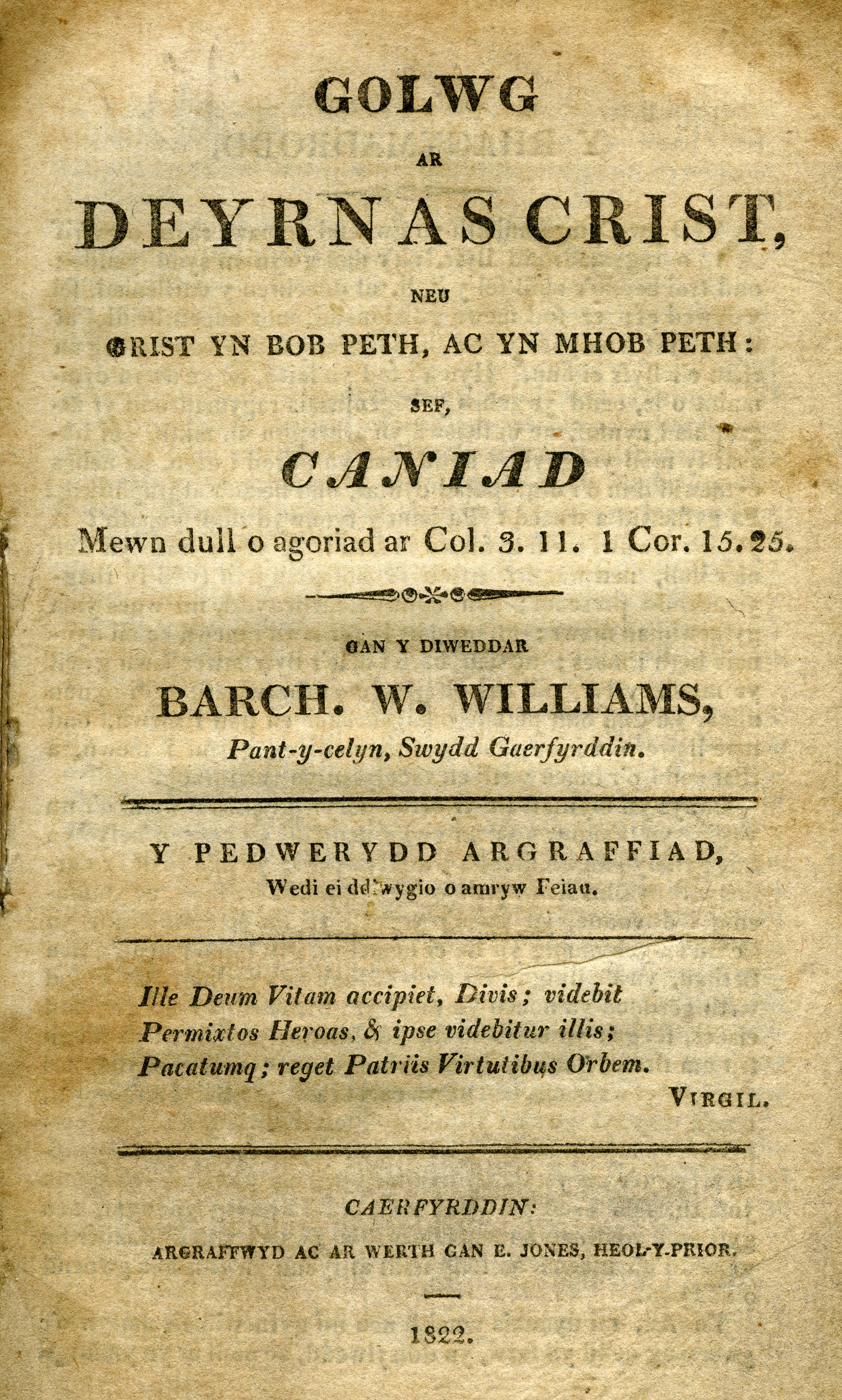 Golwg ar Deyrnas Crist. William Williams (Pantycelyn). Title Page 4th Edition. (1822)